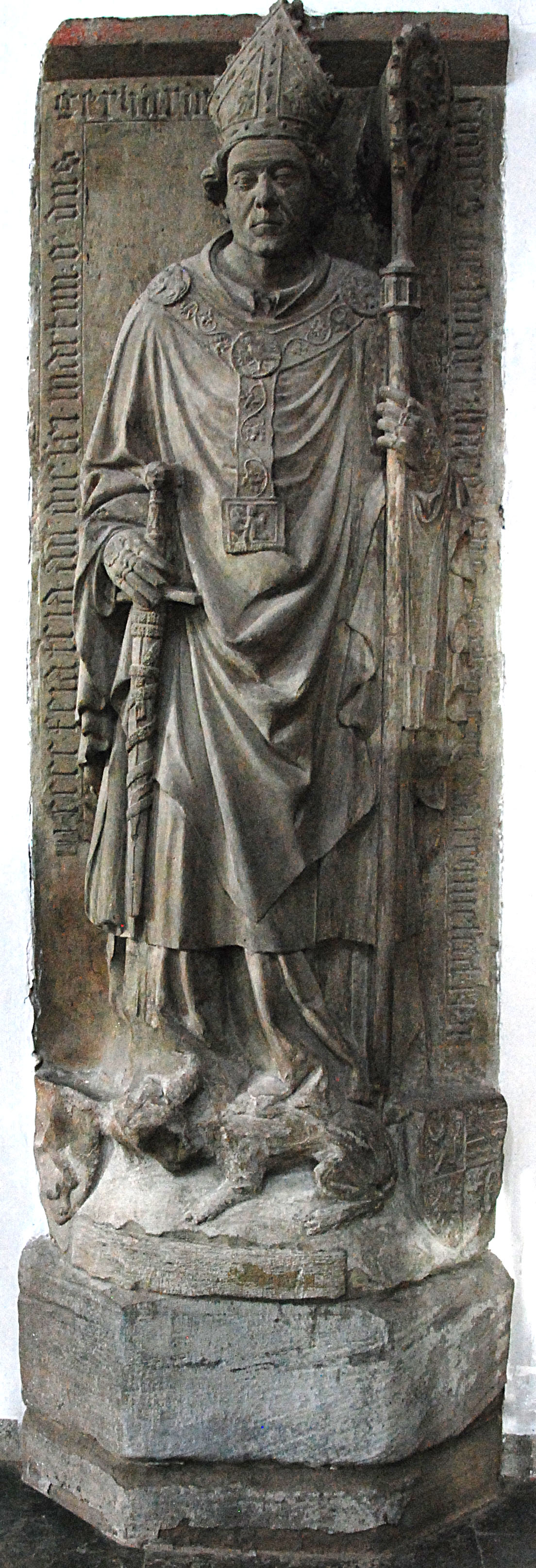 Gerhard von Schwarzburg grave Wurzburg Dom